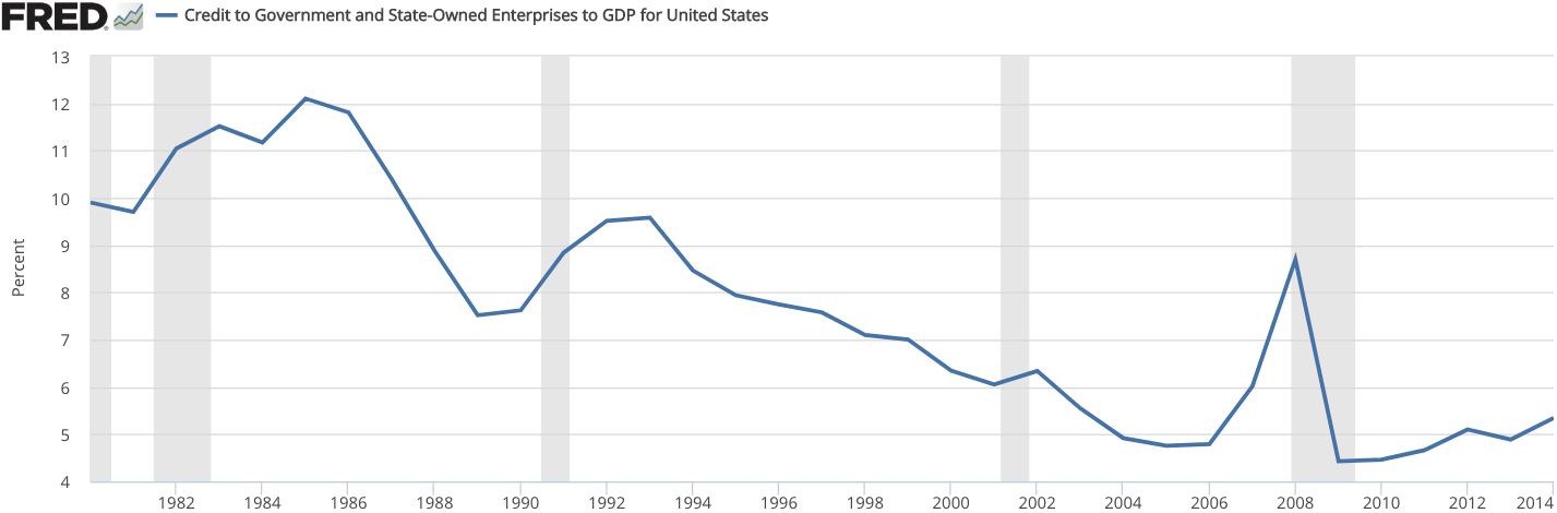 Percent of US economy from GSE or State owned Enterprise